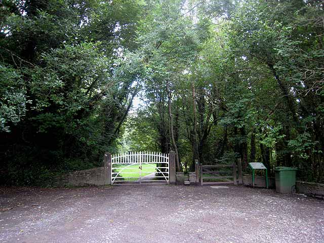 Gateway at Knockageehan From here, it is possible to walk beside the Cladagh River up to the Marble Arch caves. H1234